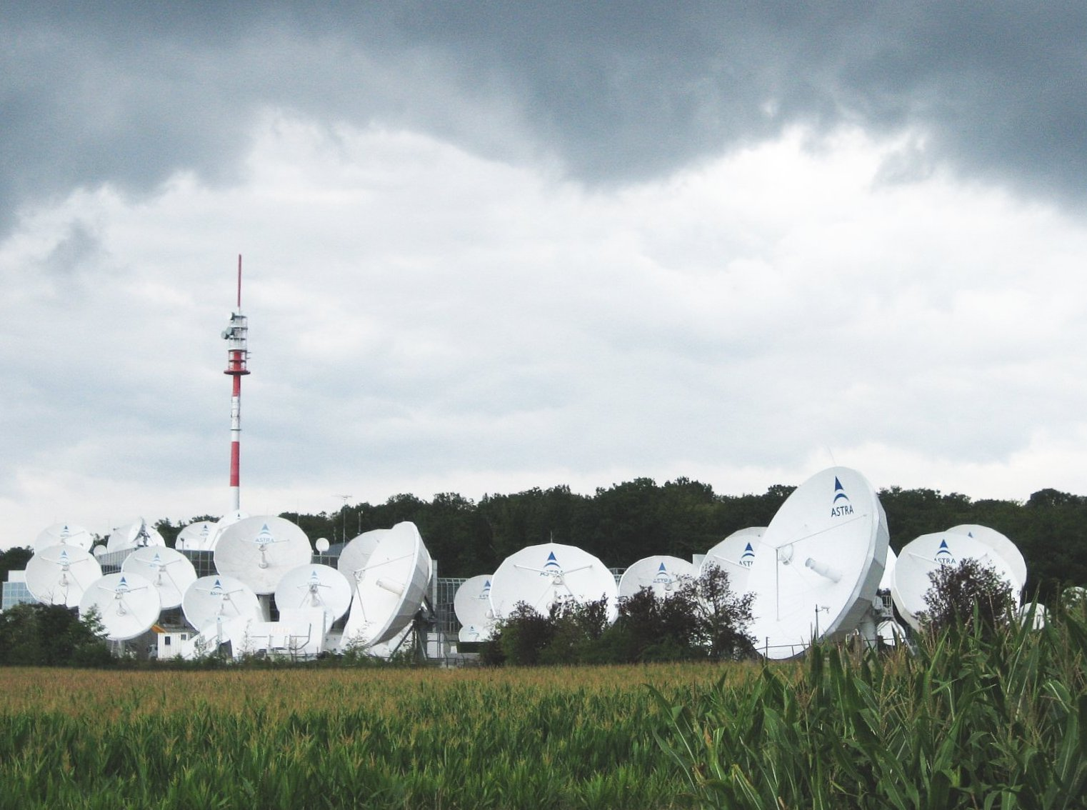 SES Global headquarters in Betzdorf, Luxembourg.